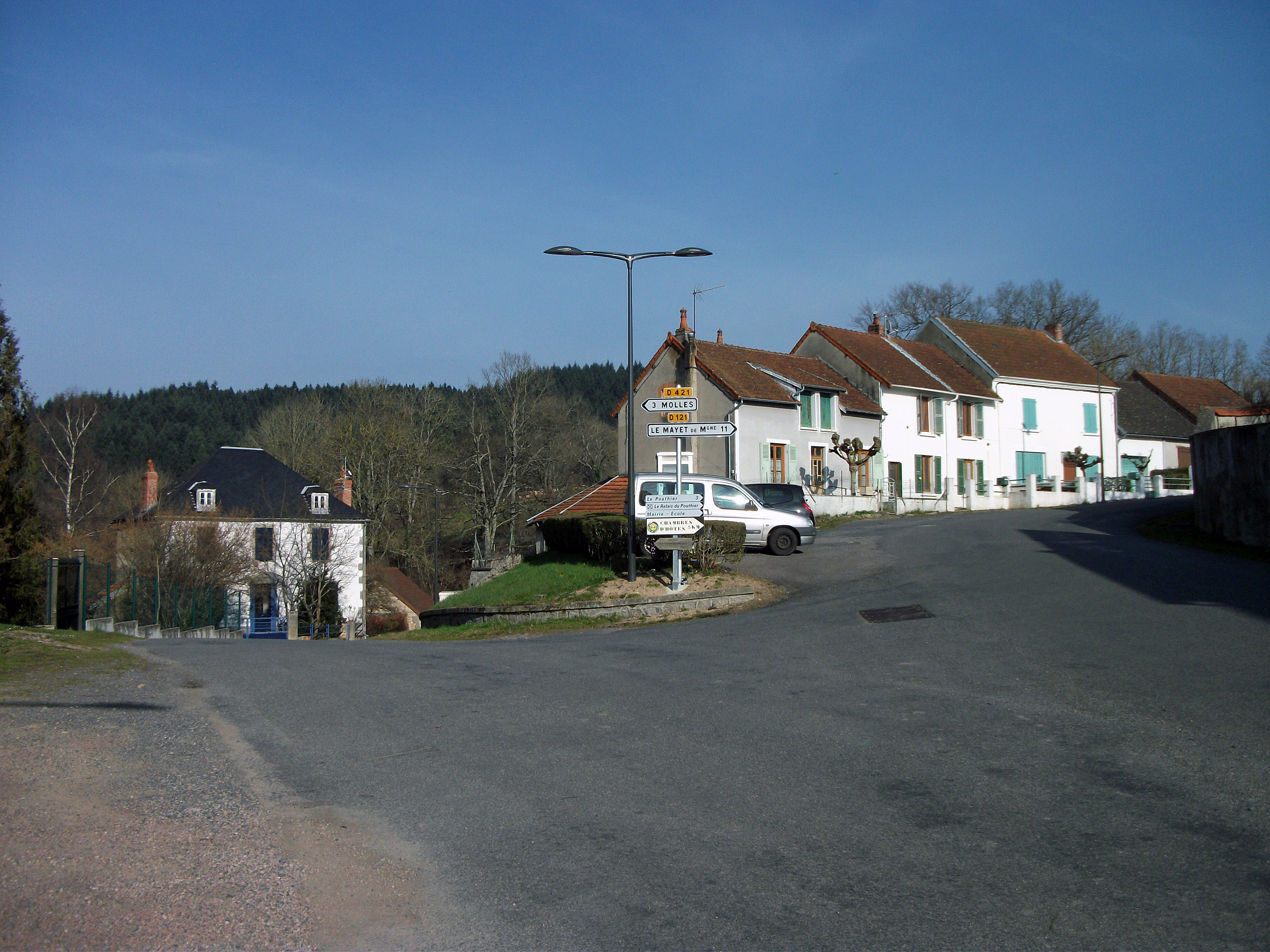 Departmental roads 121 (right, towards Le Mayet-de-Montagne) and 421 (left, towards Molles) in La Chapelle, Allier [10396]